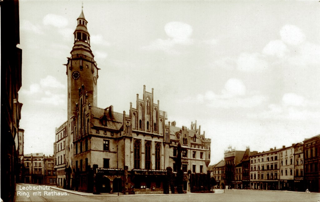 Town square in Leobschutz before the WW2.